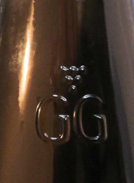 German wine label GG for selected wines